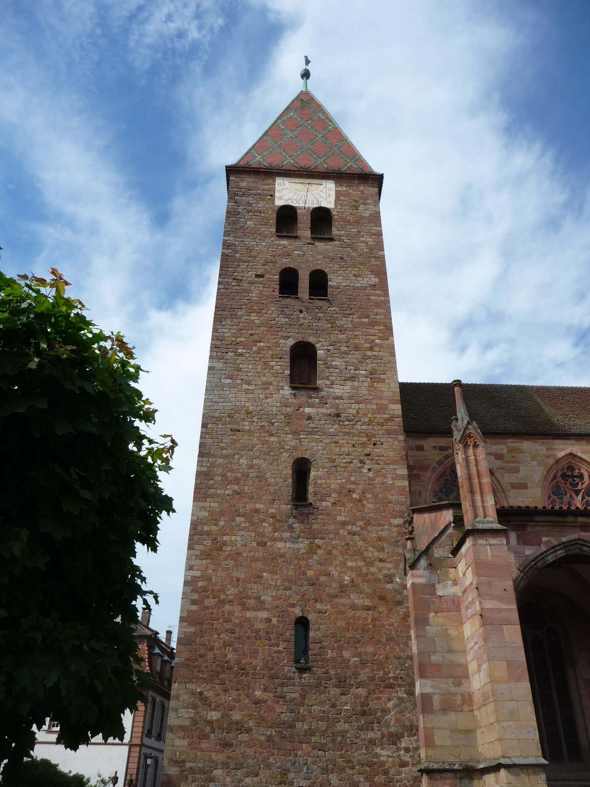 Saints-Pierre-et-Paul, Wissembourg, Alsace, France